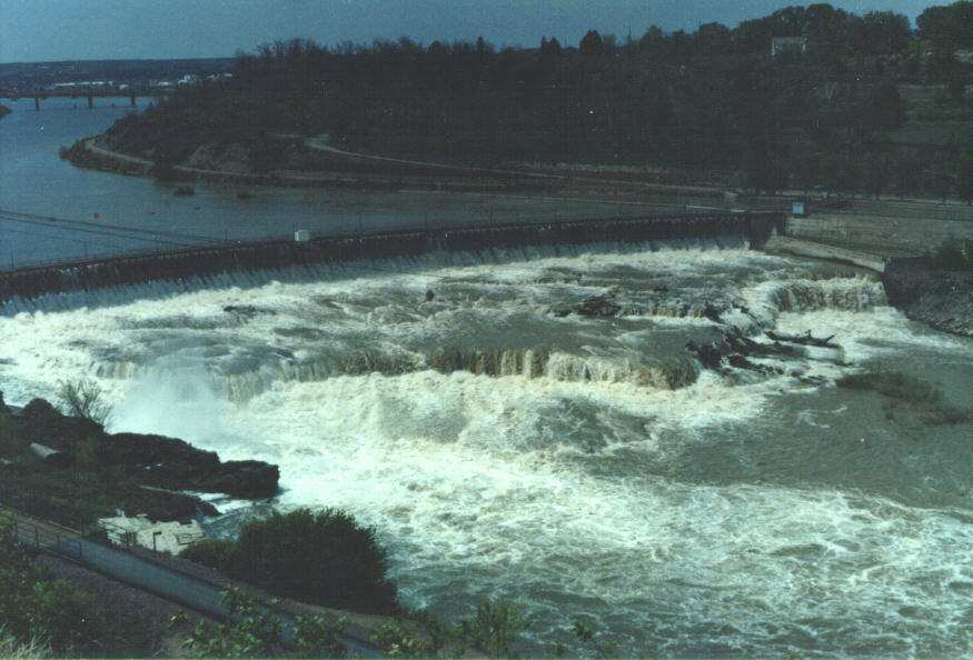 Black Eagle Falls, part of the Great Falls of the Missouri River cascades — near Great Falls, Montana. With Black Eagle Dam, on the Missouri River in Montana.